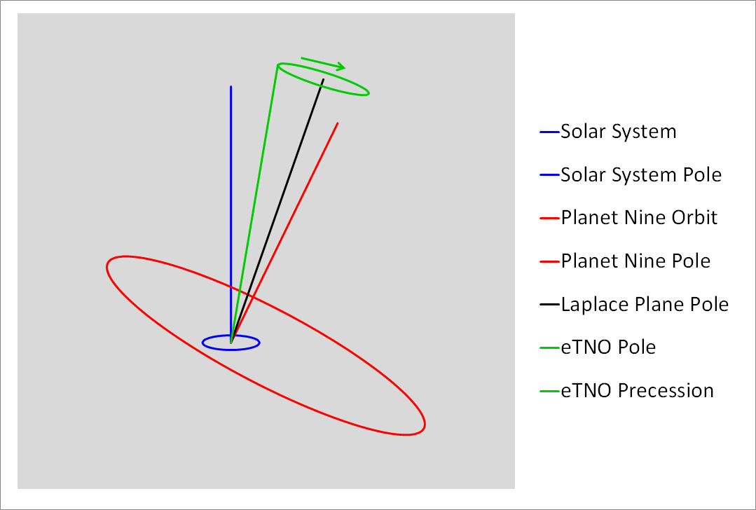 Image shows view of proposed orbit of Planet Nine and how it tilts the Laplace Plane of the Solar System. Also shown is the precession of the pole of the orbit of an extreme trans-Neptunian object about the pole of the Laplace Plane.